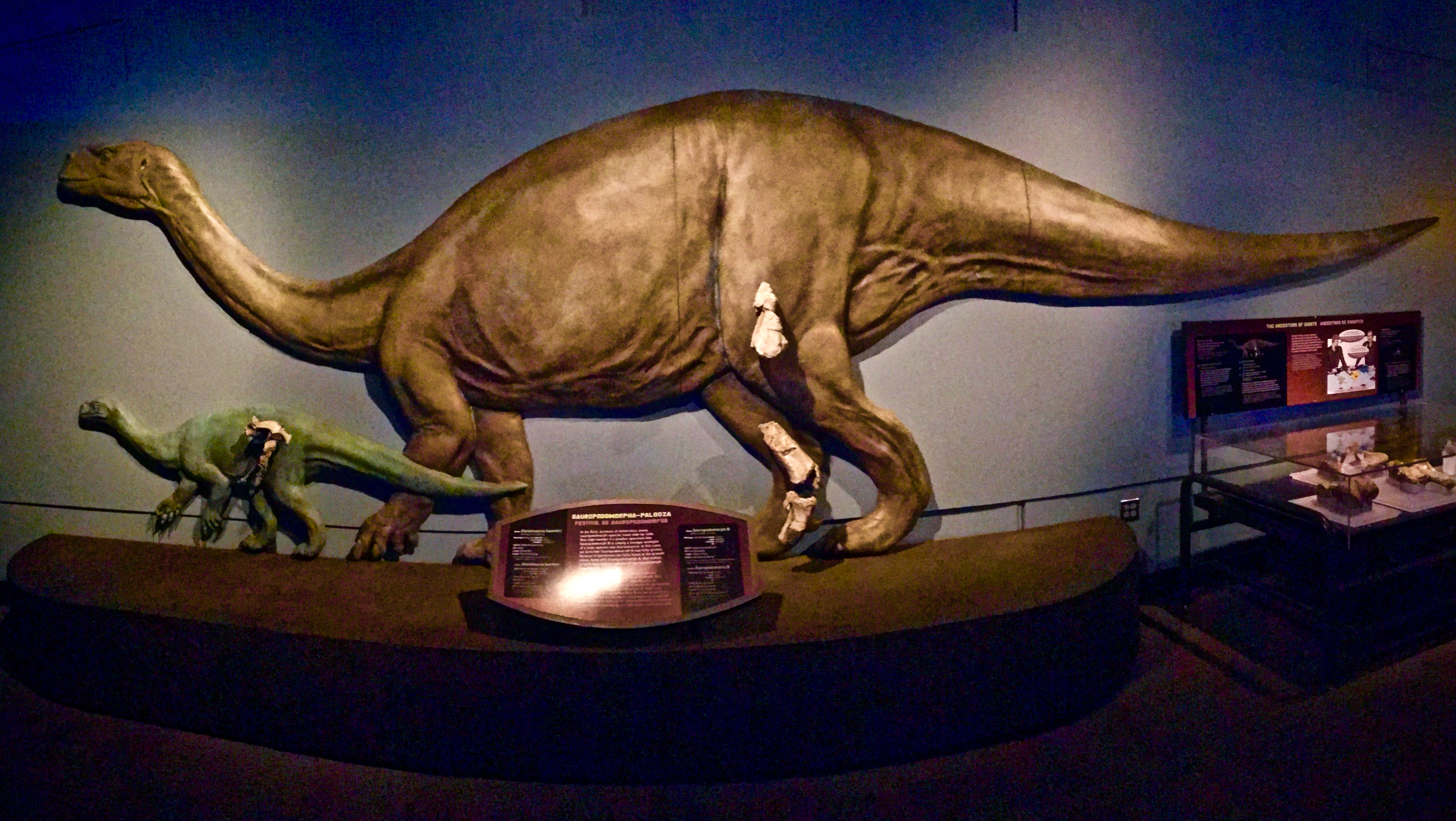 Life restoration of Glacialisaurus hammeri, part of the Antarctic Dinosaur exhibit at the Field Museum of Natural History, Chicago, IL, 2018. I cast of the fossil femur and hind limb is also present for comparison. The smaller specimen (life restoration in green) is of an yet to be named prosauropod, exhibited as Prosauropod B, also from Antarctica.